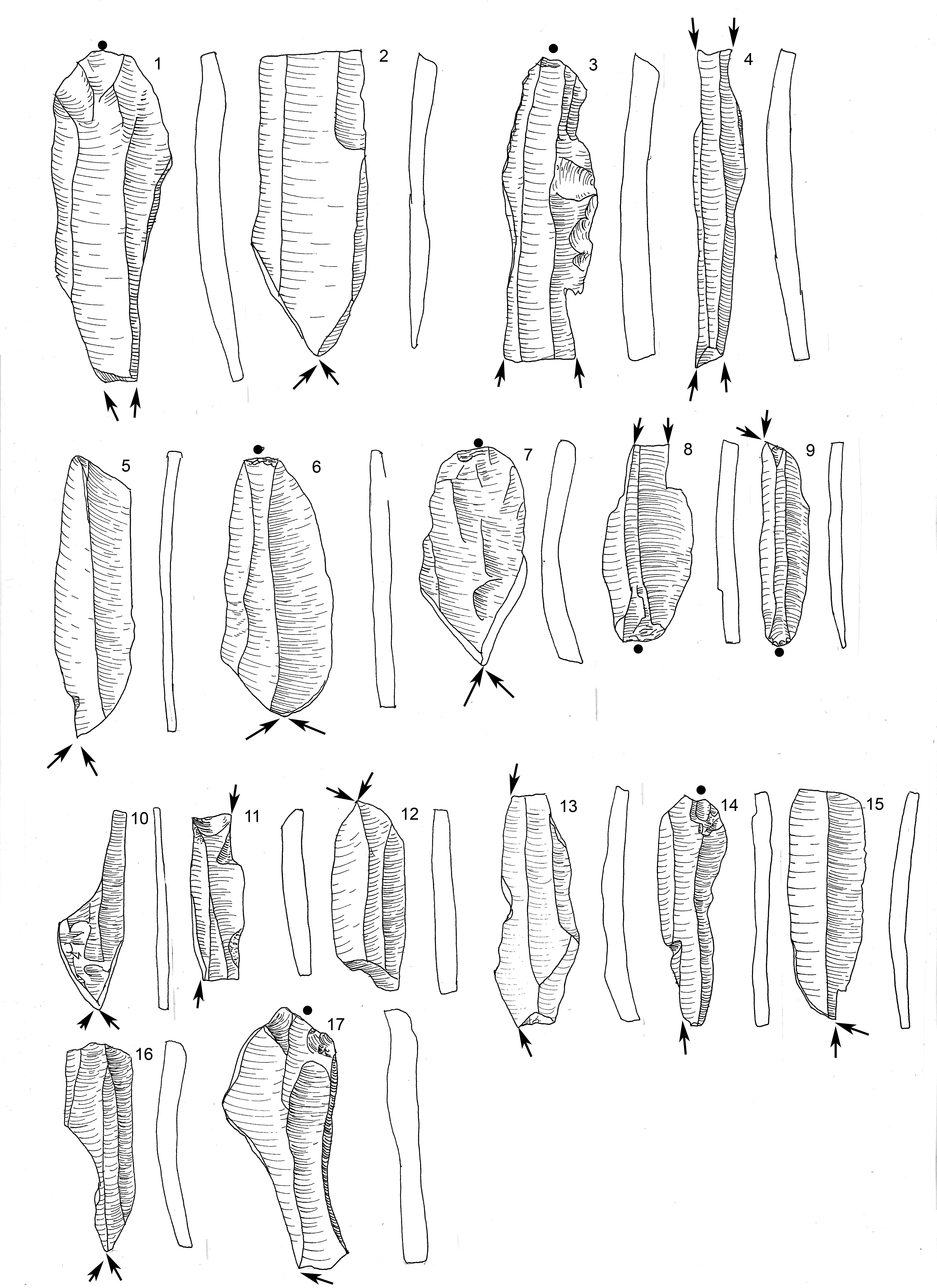 Selection of burins from Satrup 2